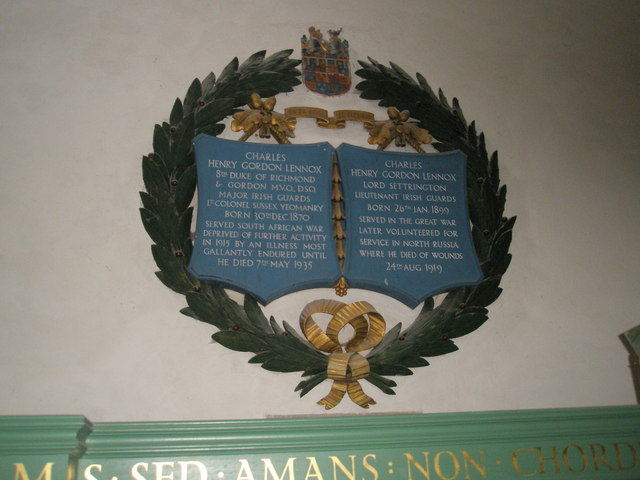 Tributes to a Duke and son within St. Mary & St. Blaise, Boxgrove